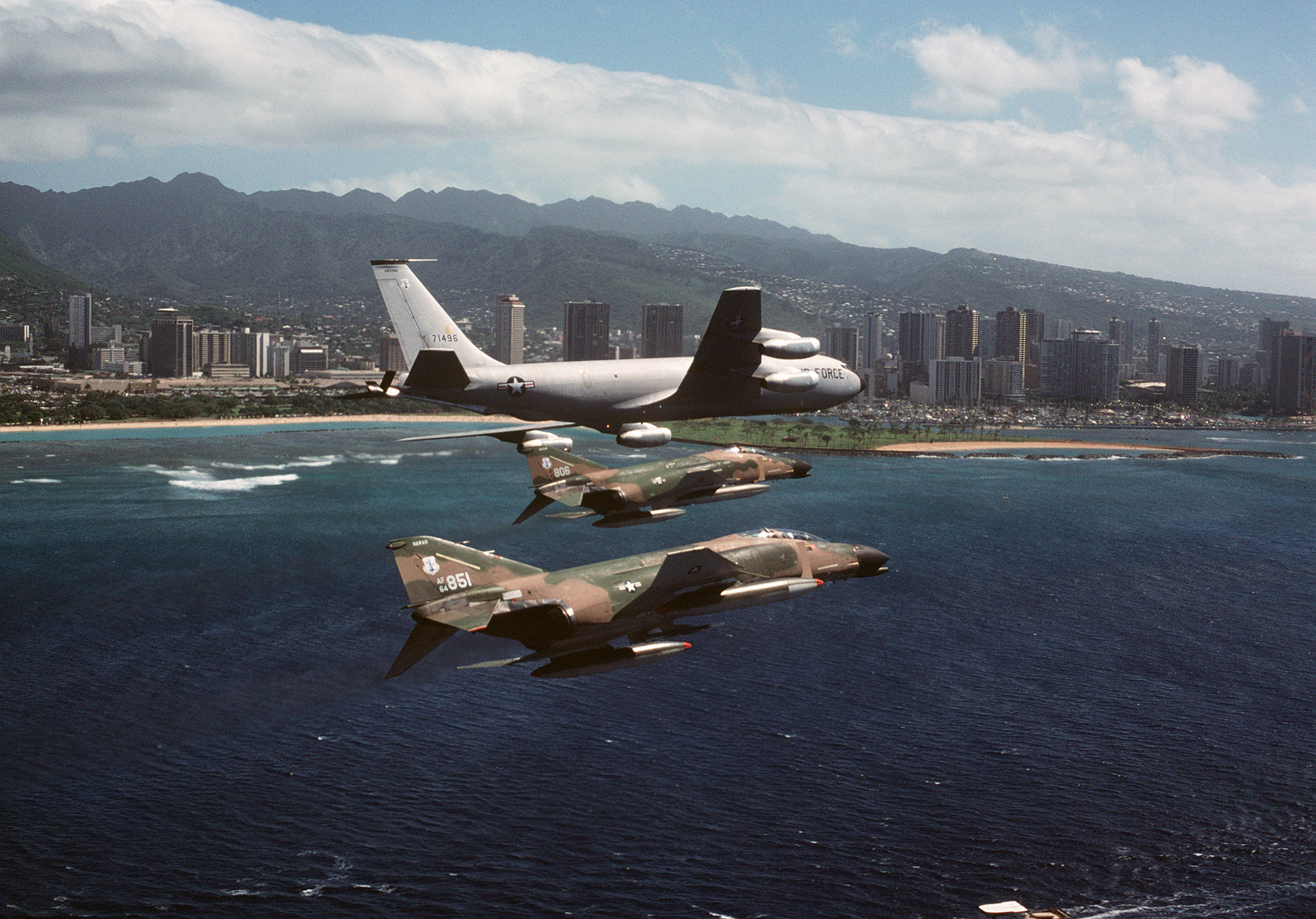 Two U.S. Air Force McDonnell Douglas F-4C Phantom II aircraft (s/n 64-806, 64-851) of the 199th Tactical Fighter Squadron, Hawaii Air National Guard, flying in formation with a Boeing KC-135A Stratotanker aircraft (s/n 57-1496) of the 161st Air Refueling Group, Arizona Air National Guard, on 9 March 1979. In the background is the skyline of Honolulu, Oahu, Hawaii (USA).